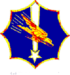 Emblem of the USAAF I Fighter Command